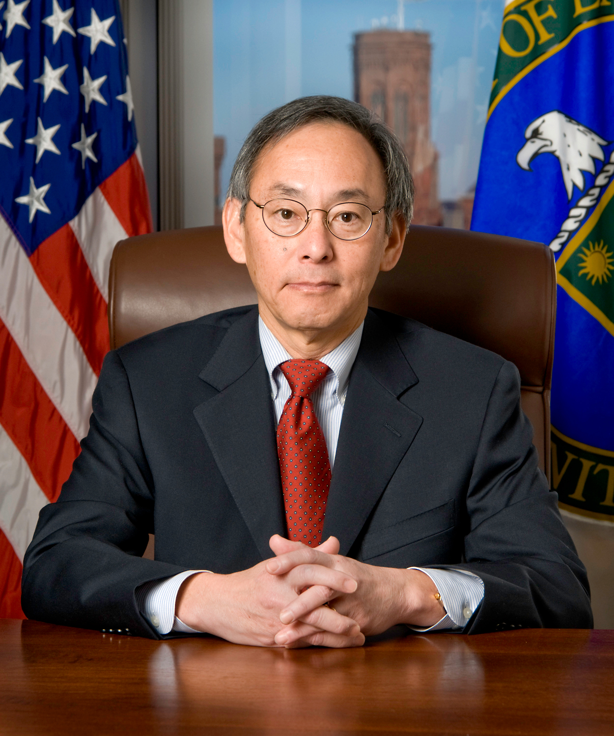 Official portrait of United States Secretary of Energy Steven Chu